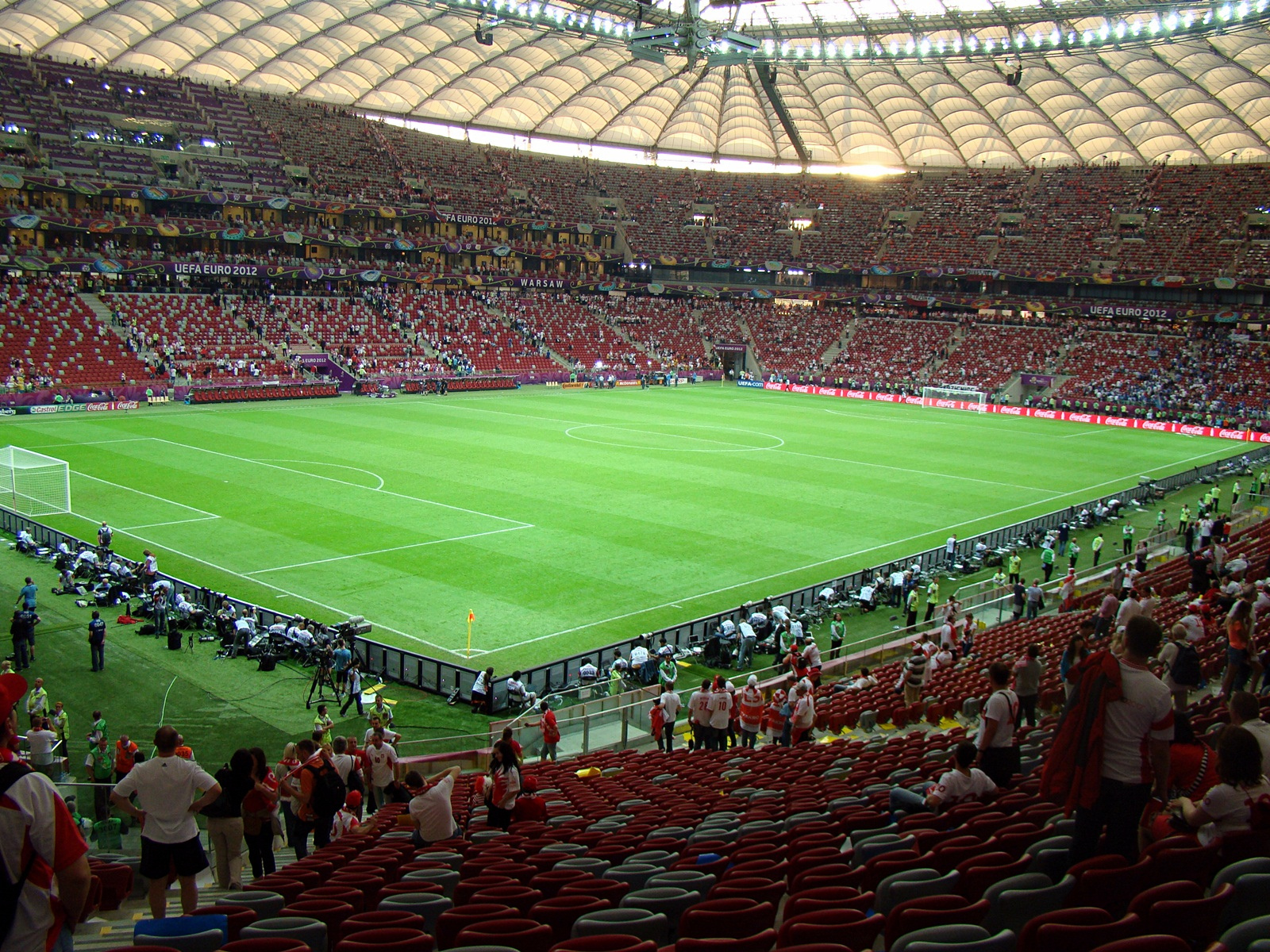 UEFA Euro 2012 opening match between Poland and Greece.